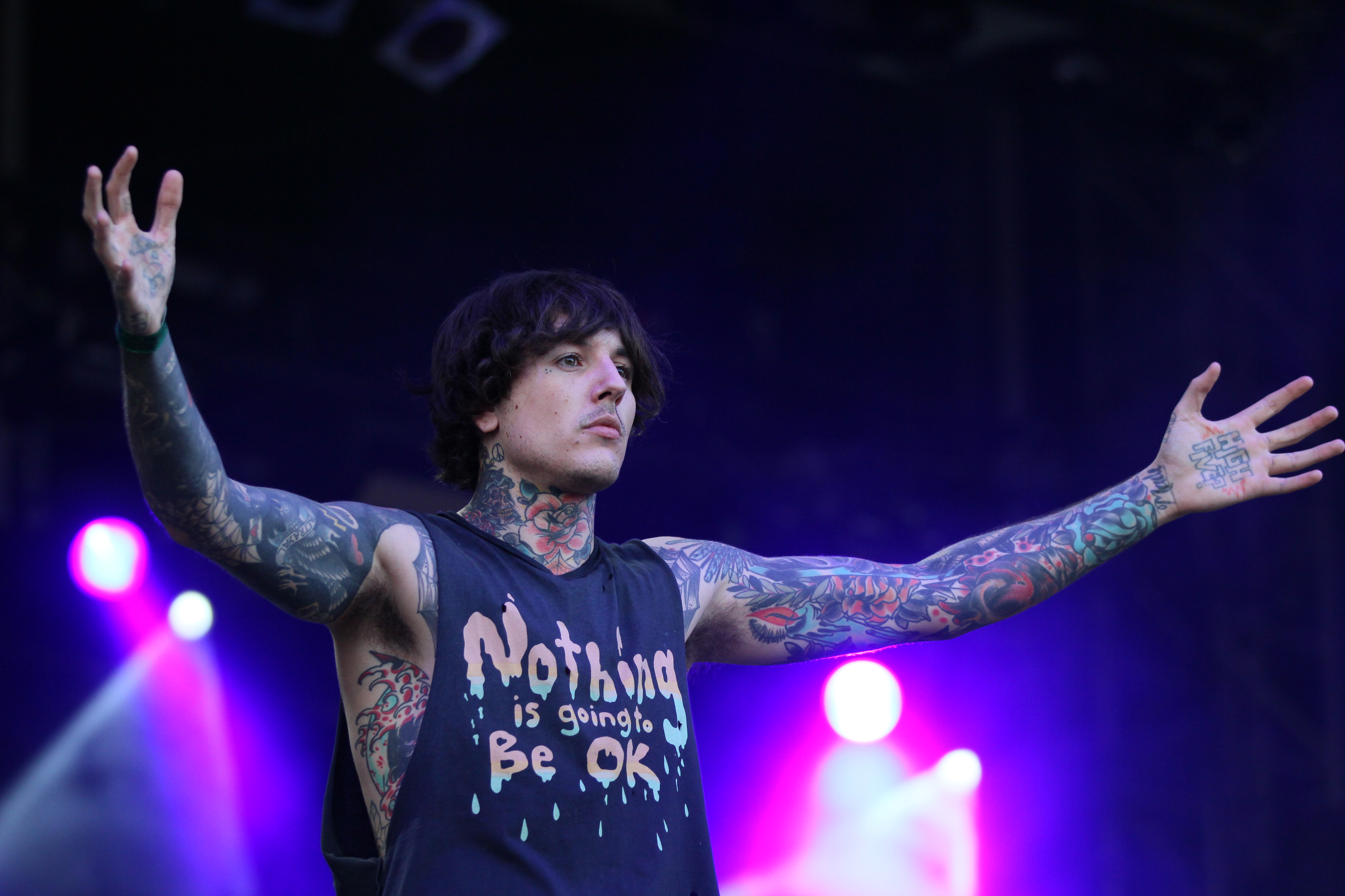 The English metalcore/deathcore band Bring Me the Horizon at the With Full Force festival 2014 in Roitzschjora/Germany